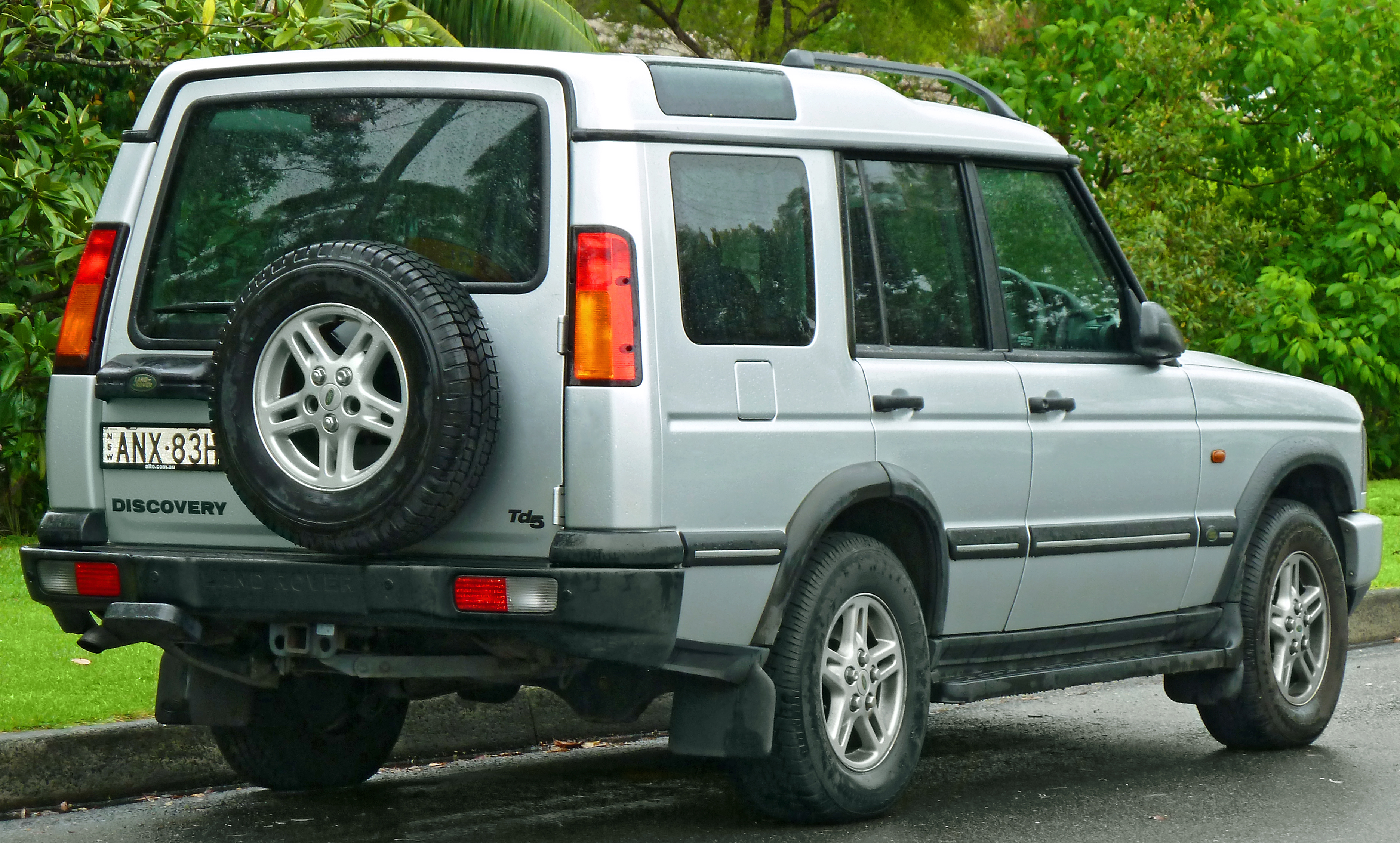 2002–2004 Land Rover Discovery (MY03) Td5 5-door wagon. Photographed in East Lindfield, New South Wales, Australia.